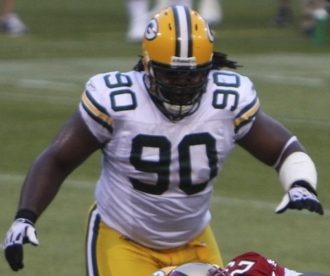 Green Bay Packers defensive tackle Colin Cole in action in a preseason game against the San Francisco 49ers on August 16, 2008.